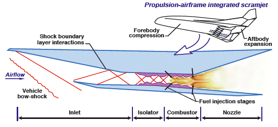 Diagram of a scramjet engine, highlighting the major sections.